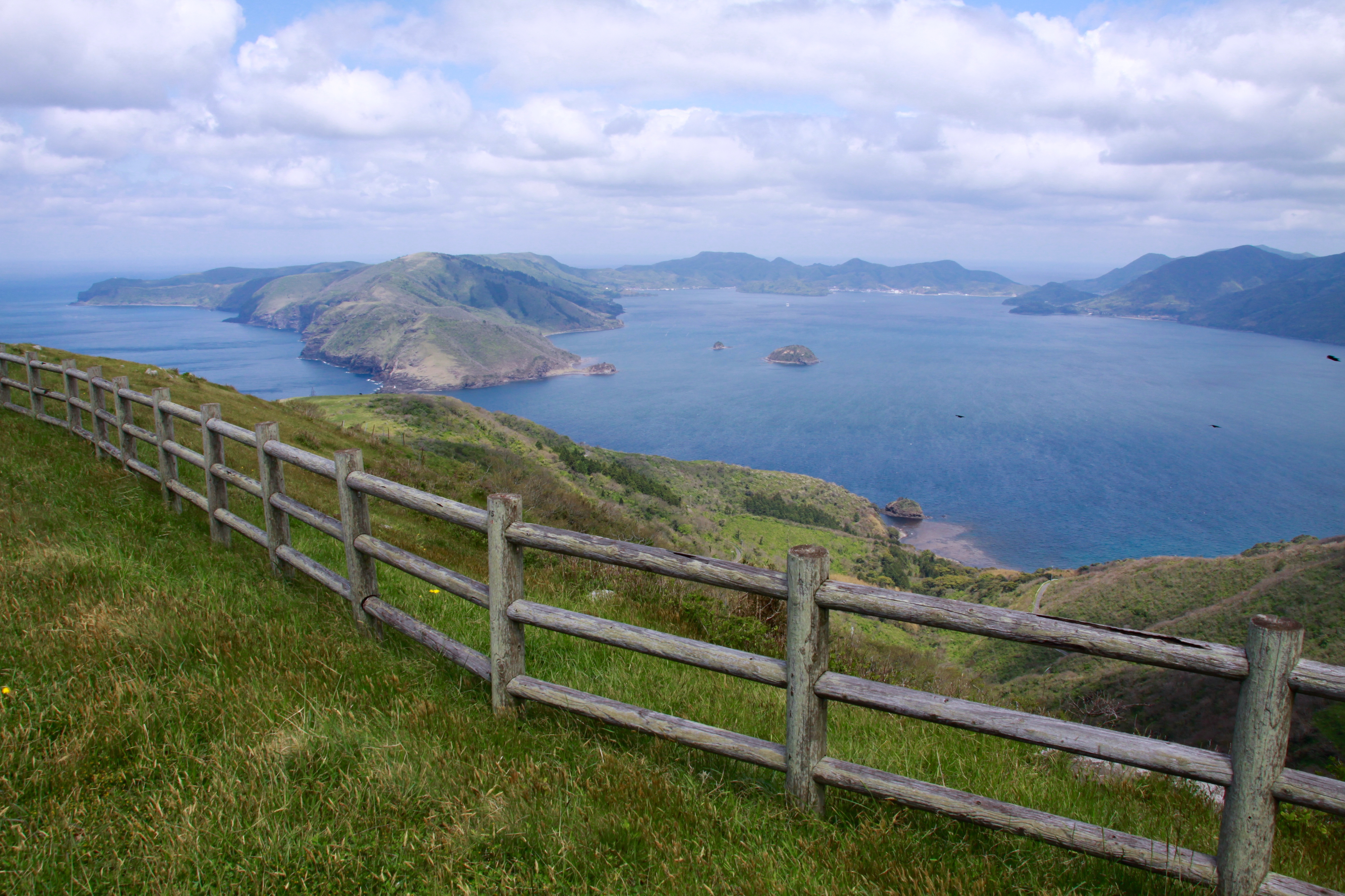 Dozen Caldera seen from Mt. Akahage, Chiburijima (looking to the north). There are no trees growing around Mt. Akahage which gives us an unobstructed 360 degree view of the Dozen Caldera: Mt. Takuhi in the center (central pyroclastic cone), Nishinoshima Island, and Nakanoshima Island (outer rim of the caldera).